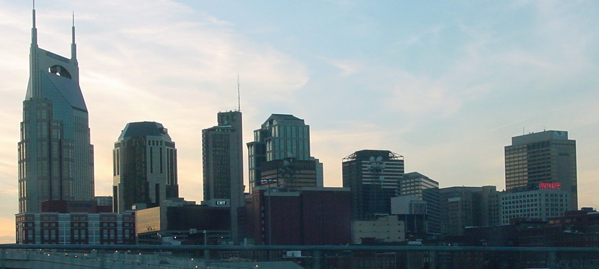 The skyline of Nashville, Tennessee at dusk. Photographed from the Gateway Bridge.